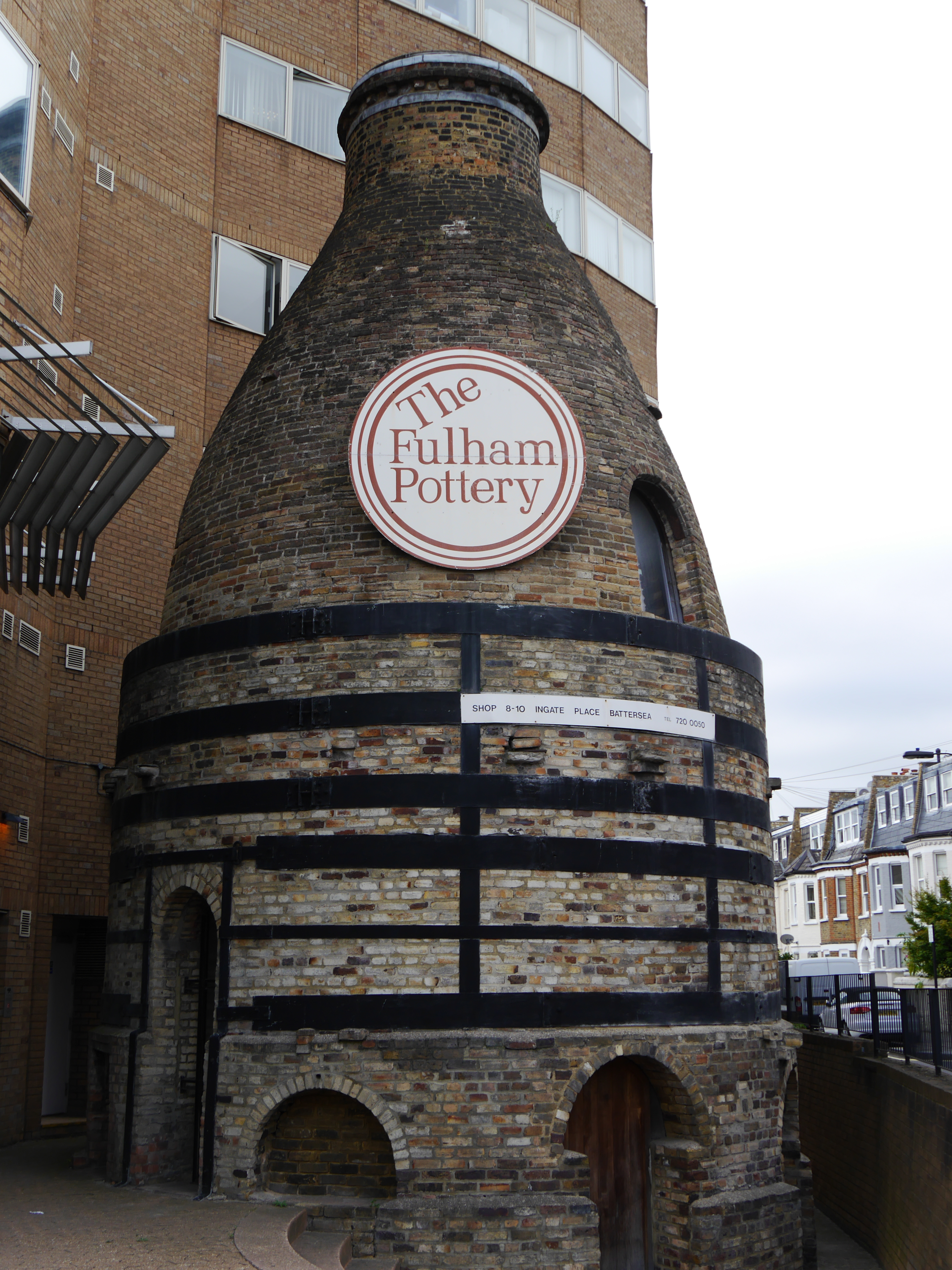 Fulham Pottery, September 2016